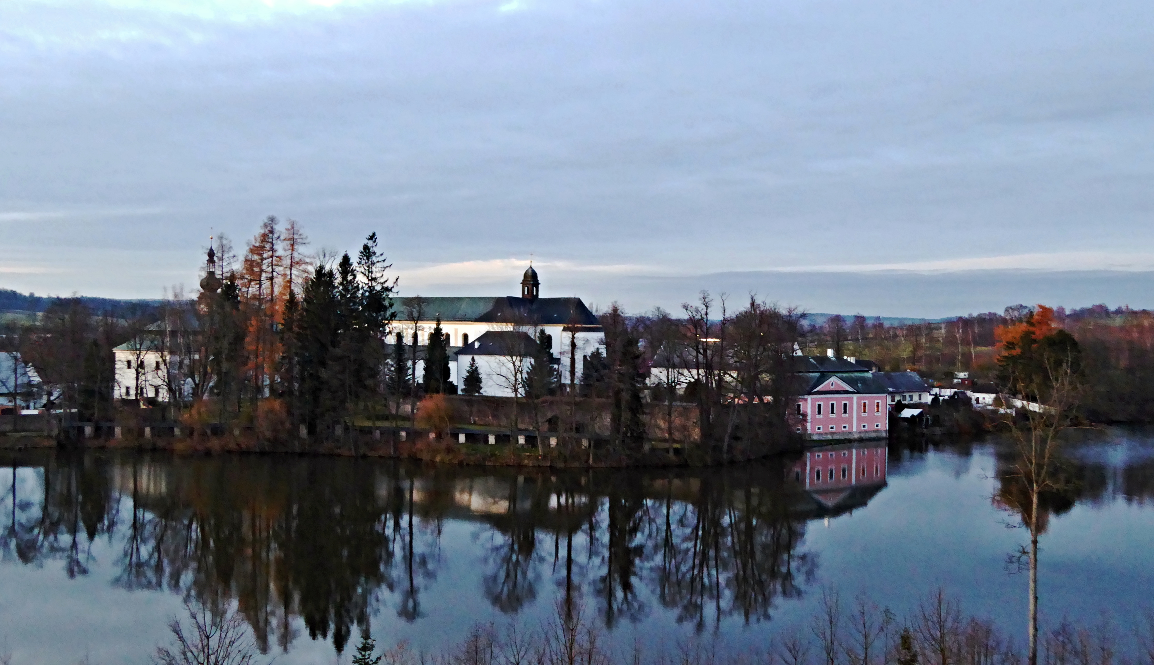 Chateau complex in "Žďár nad Sázavou" in the early evening, view from the church of St. Jan Nepomucký on the Green Mountain. Originally Gothic cistercian monastery of the Virgin Mary (Fons Beatae Mariae Virginis), modified in Baroque style (architecture of so-called Baroque Gothic, Jan Blažej Santini-Aichel he was involved in the construction). The monastery abolished after 1784 and was rebuilt into a chateau. The castle complex is situated on the western bank of the Konventský pond (the pond is powered by a stream of the "Stržský" brook). In the grounds of the historical monument (basilica and chapel to the Virgin Mary). Photo location: Czechia, Vysočina Region, town Žďár nad Sázavou, the slope of the Green Mountain (315°).